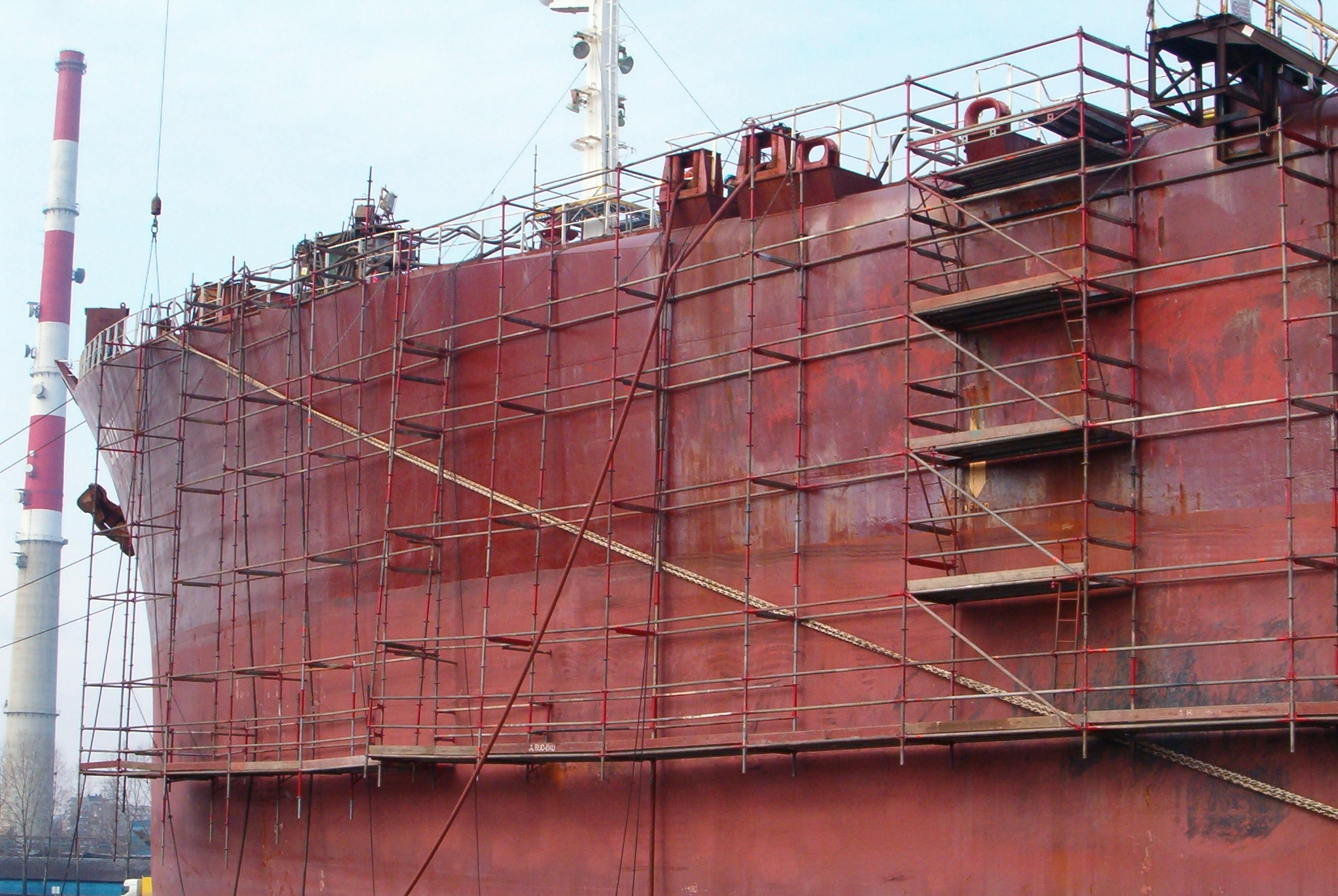 Scaffolding on a ship